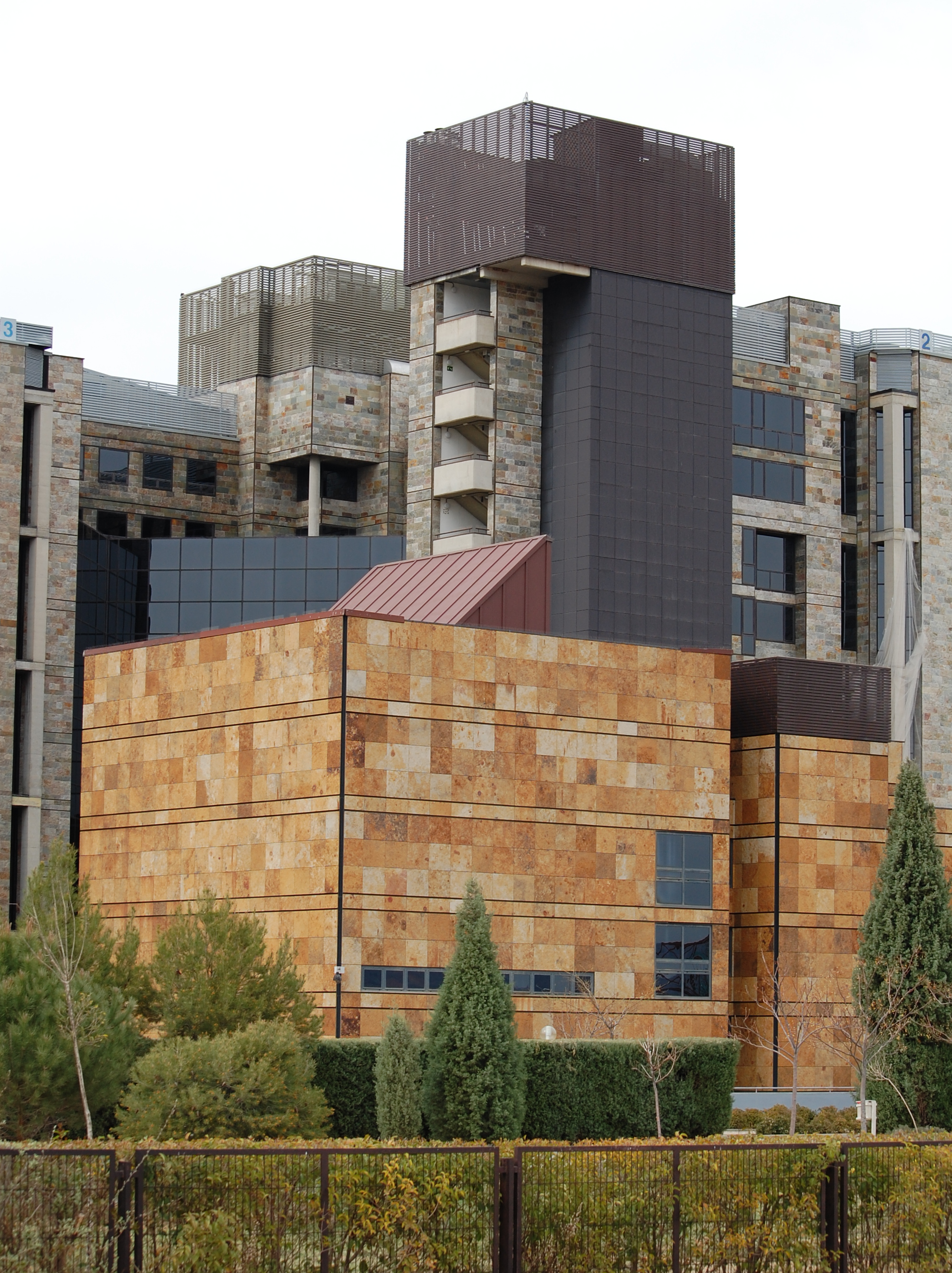 Building of the National Library of Spain (BNE) in Alcalá de Henares. Designed by architect Francisco Fernández Longoria, consists of six towers, to deposit books in more than 250 kilometers of shelving. Begun in 1988 on land donated by the University of Alcalá, and has had several extensions. It now houses much of the collection of the BNE, and has a reading room with 40 seats.